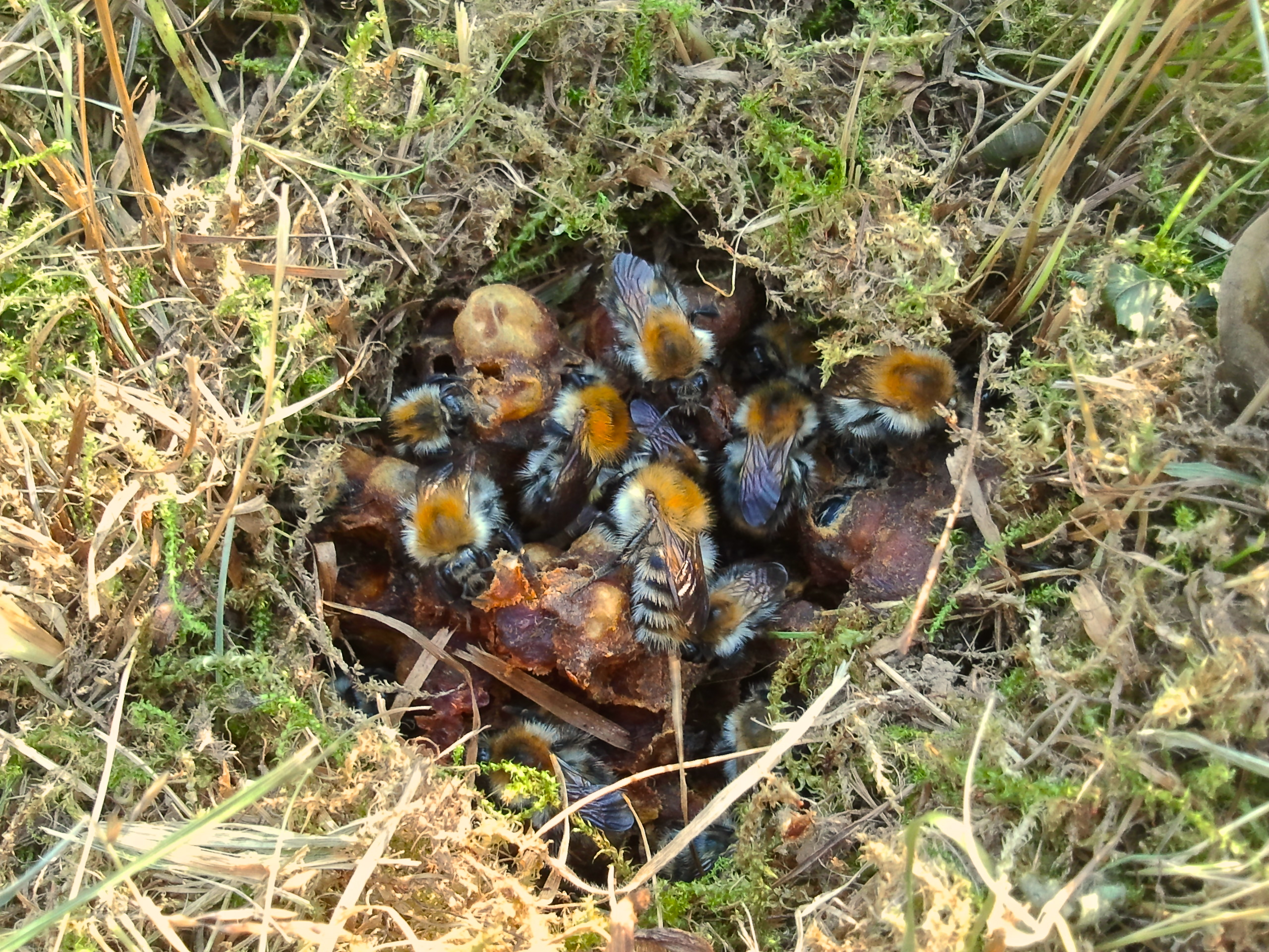 A hive of a awild form of Apoidea built in the moss and grass of the lawn. Addition 2014: It's an above-ground natural nest of wild bee superfamily Apoidea called Common Carder Bee (Bombus pascuorum) found in central Europe. The upper portion of the wax canopy ("involucrum") was removed. A view into the nest: Bumblebee female workers, pupa (pupae) (already with hair) in partially opened cocoon short time before emerging as a bumblebee (right), young puppae in damaged cocoon (upper left).